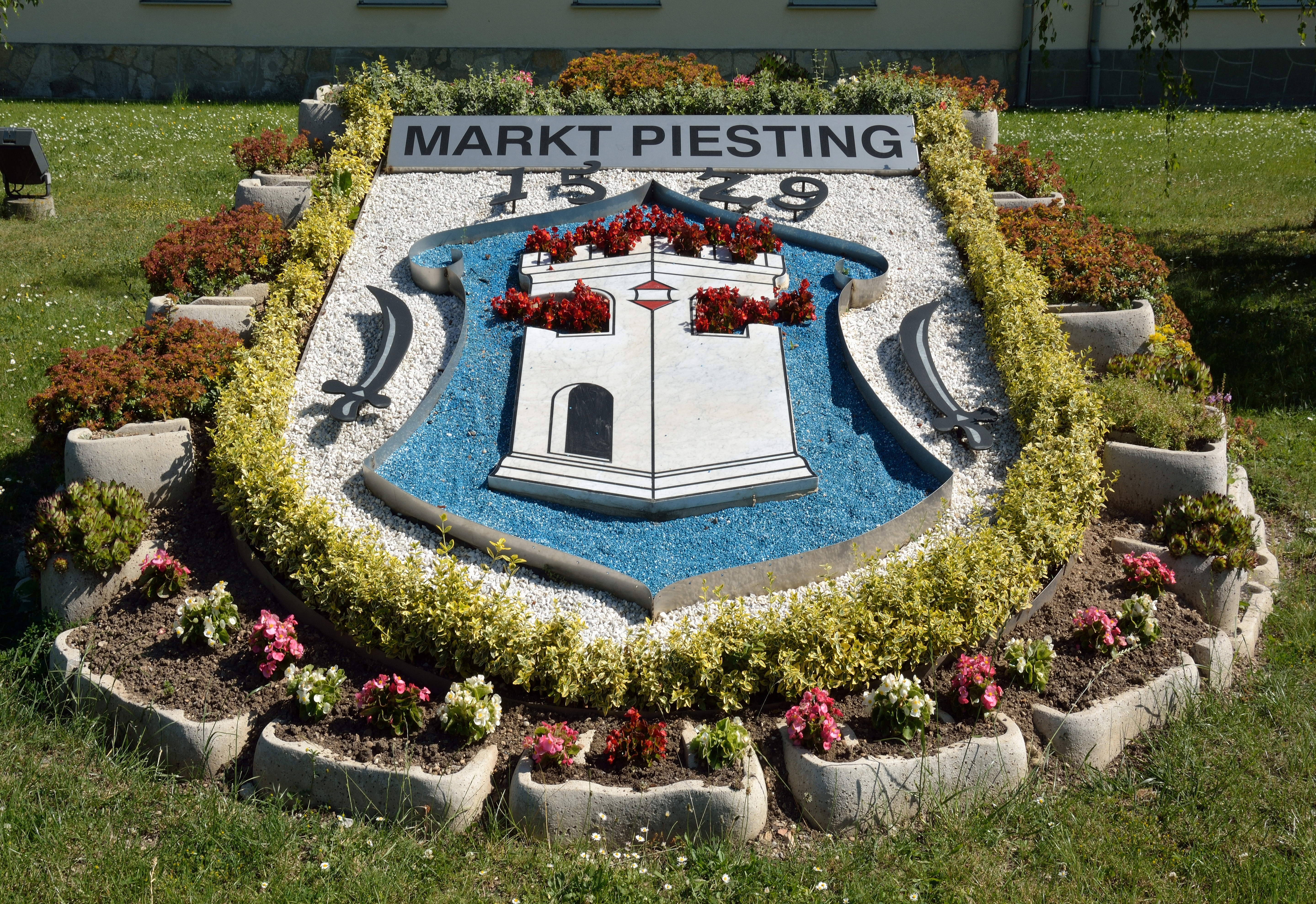 CoA of Markt Piesting formed by flowers, park of Seisermühle (cultural heritage monument), Lower Austria